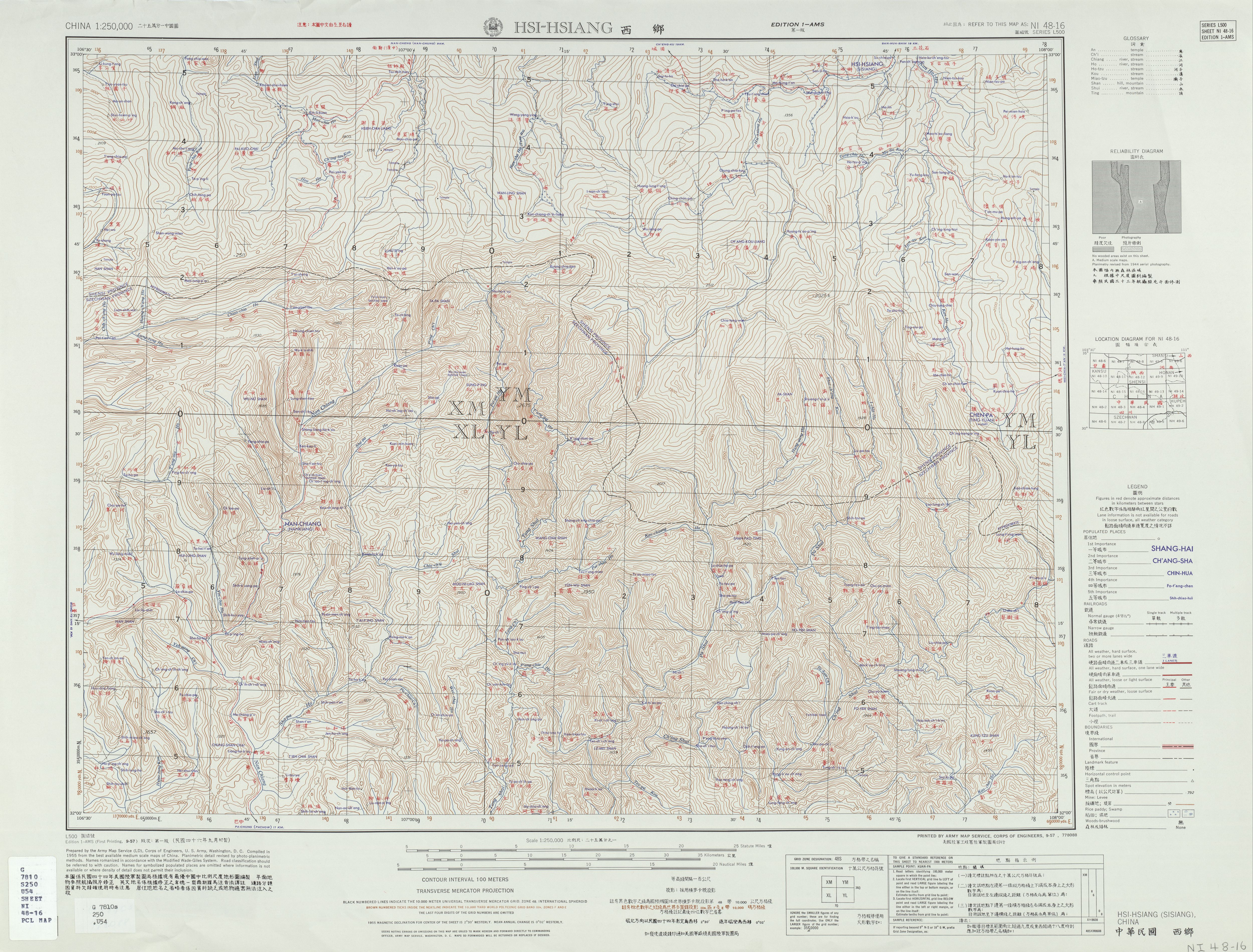 China AMS Topographic Maps